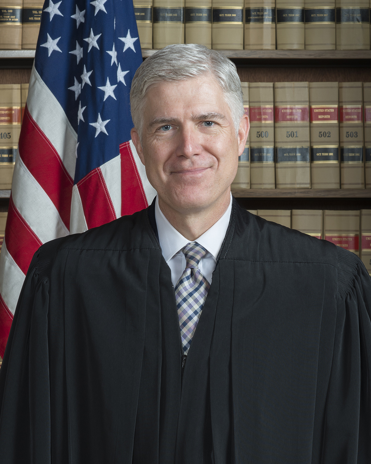 Associate Justice Neil M. Gorsuch; photograph by Franz Jantzen, 2017.